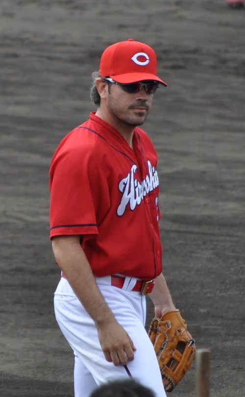 Brian Barden, infielder of the Hiroshima Toyo Carp, at Okinawa Municipal Baseball Stadium.